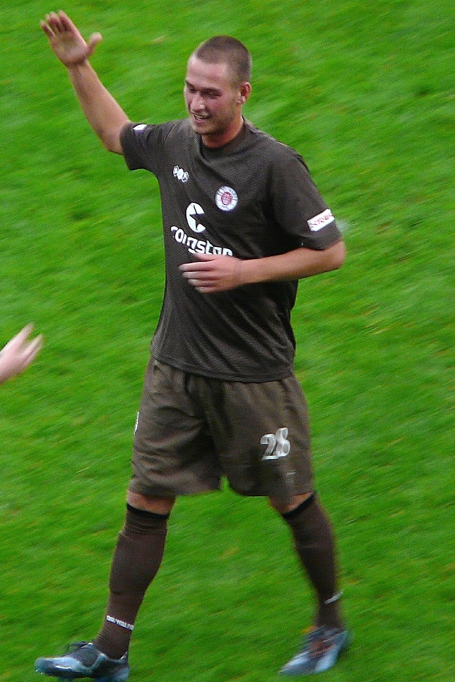 Ömer Şişmanoğlu as Player from FC St. Pauli